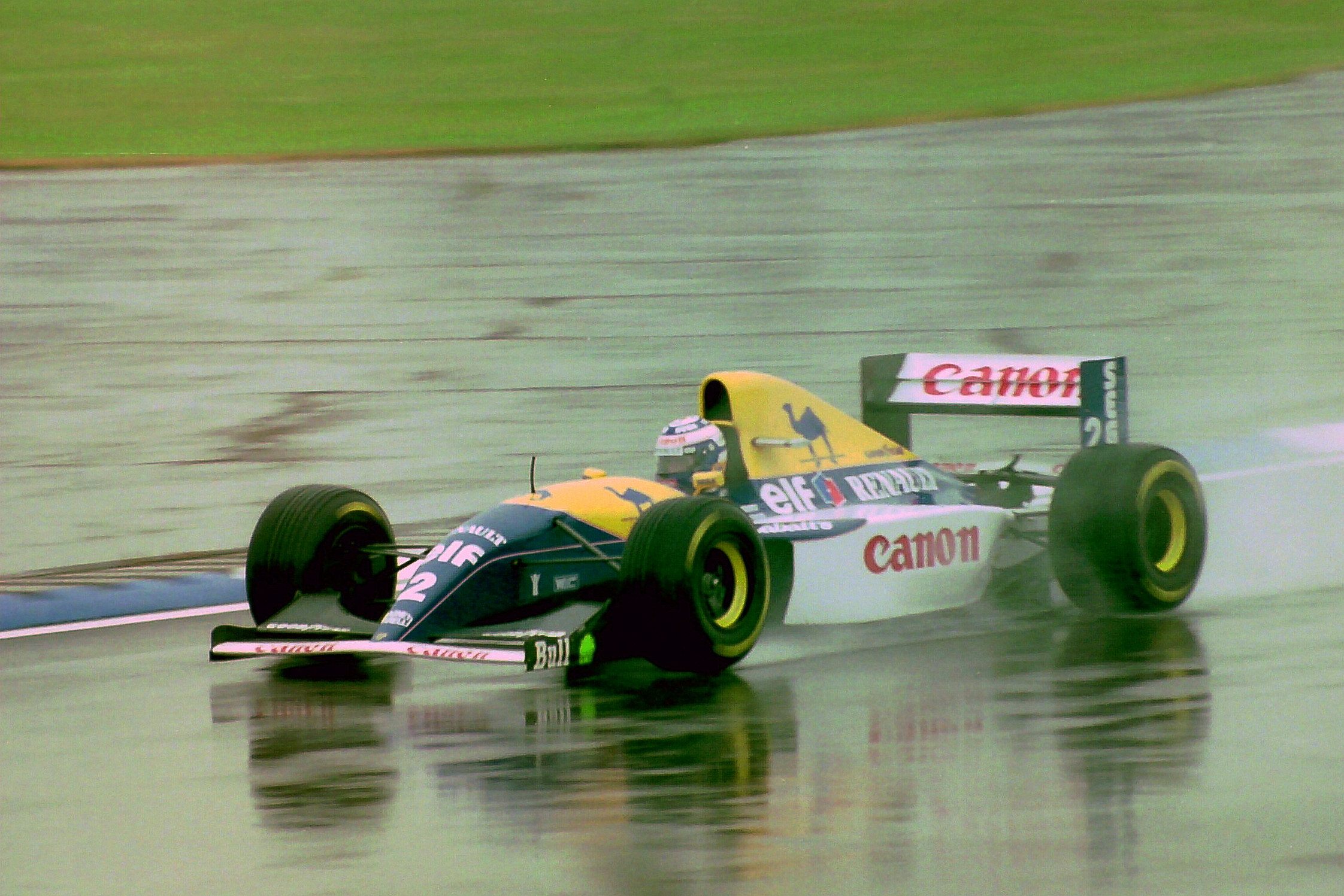 Alain Prost - Williams FW15C during practice for the 1993 British Grand Prix